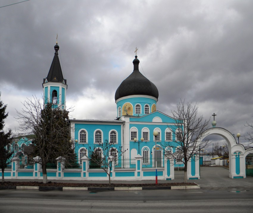 Успенский собор в Новом Осколе